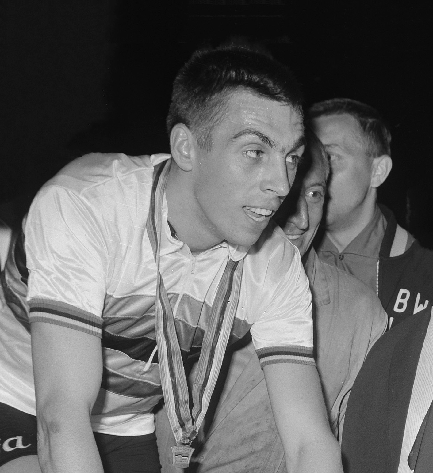 WK Wielrennen op de baan sprint profs finale. Sercu op de fiets